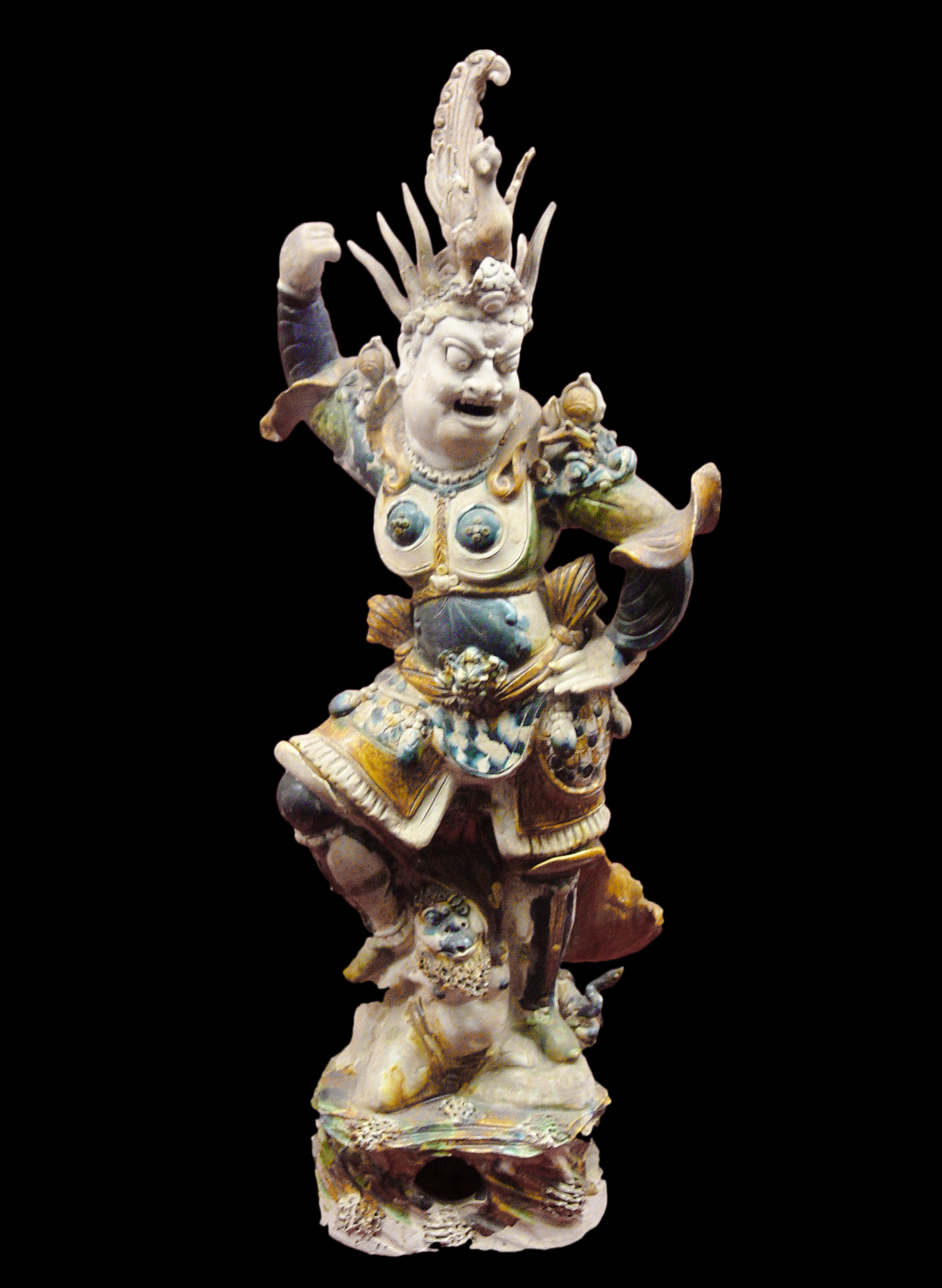 Tomb Guardian. Tang dynasty. Shaanxi History Museum, Xi'an This mythological guardian, armed like a warrior and glazed in jewel-like colors, triumphs over an earth spirit at his feet. His head is crowned by projecting horns and phoenix, a combination that identifes him as a tomb guardian of the southern quarter. These figures were usually placed around the entrance to the tomb chamber or around the coffin